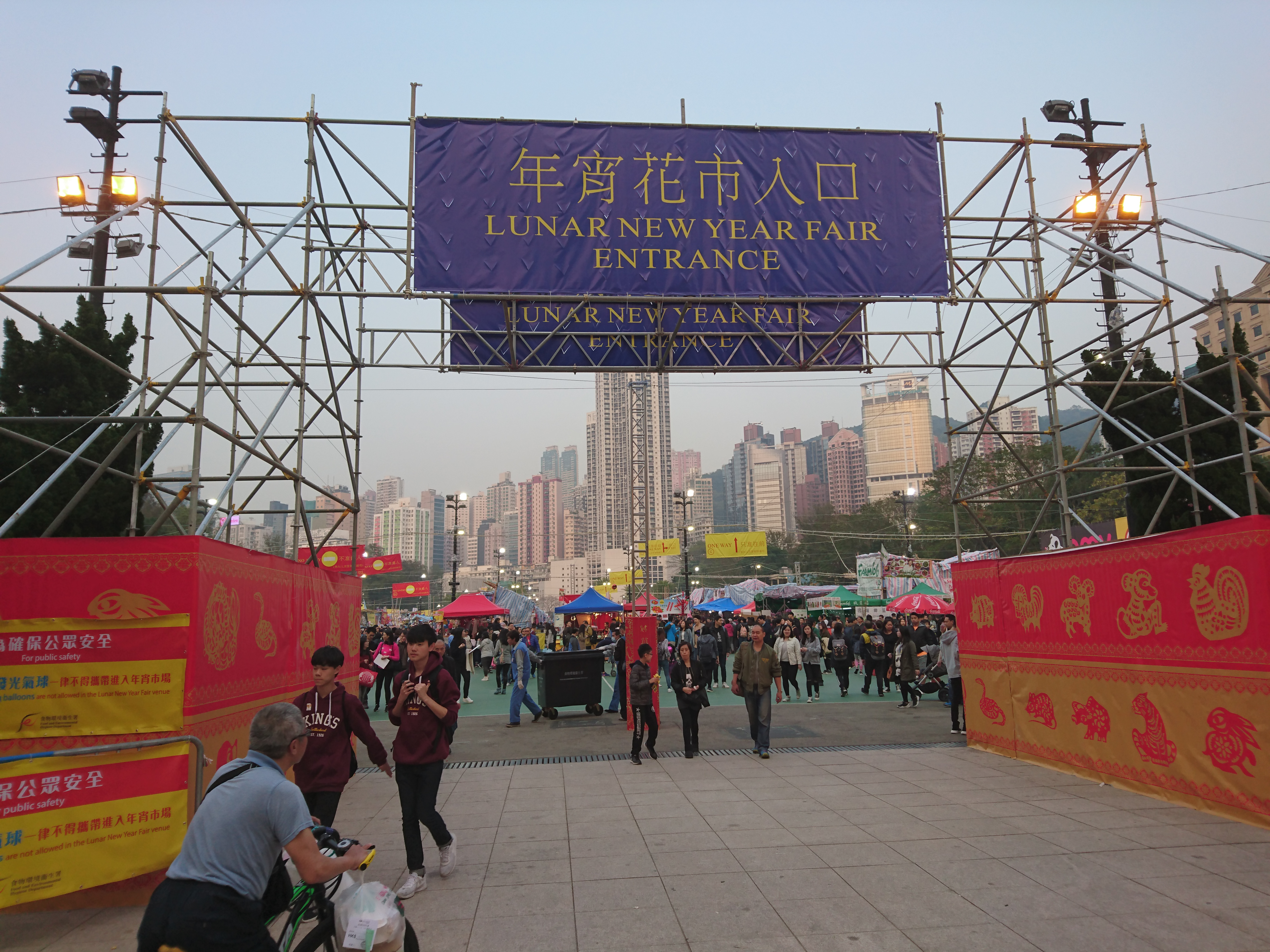 Entrance of 2018 Chinese New Year Fair in HK Victoria Park